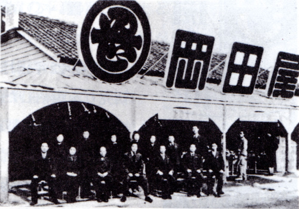 Okadaya, Yokkaichi-City Mie Japan.